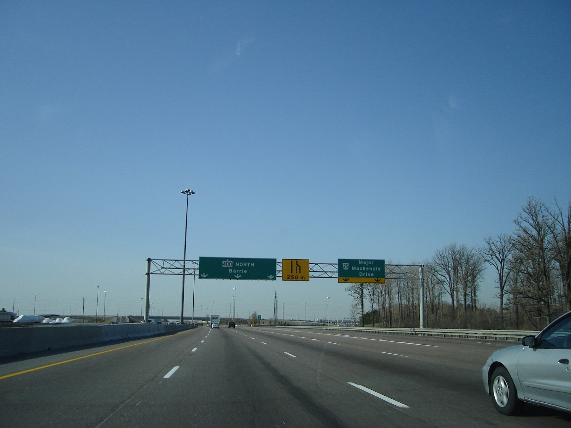 Ontario provincial highway 400 North near Toronto